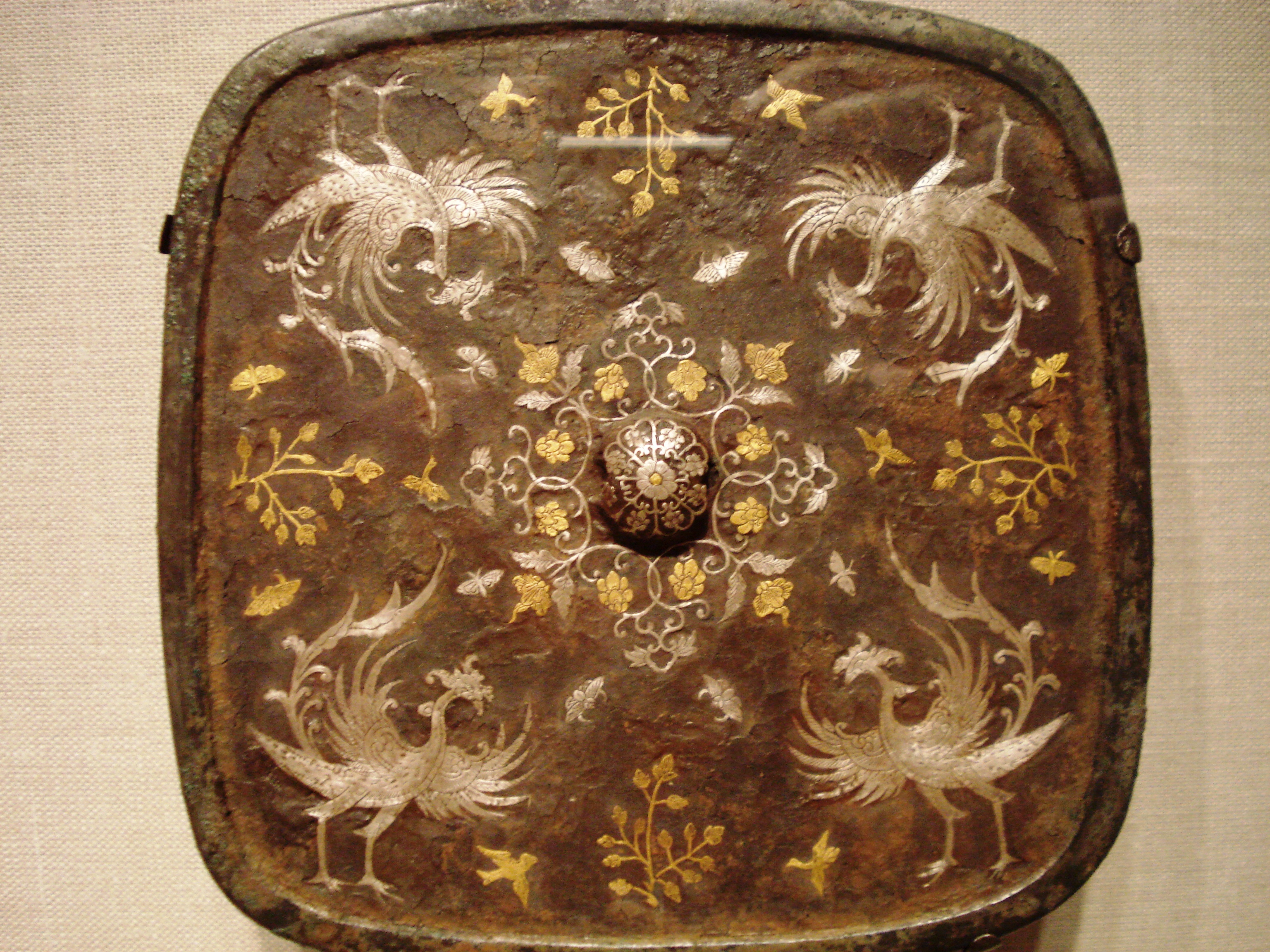 A square bronze Chinese mirror with a phoenix motif, with decorations of gold and silver inlaid with lacquer, from the era of the Tang Dynasty, dated 8th century AD.